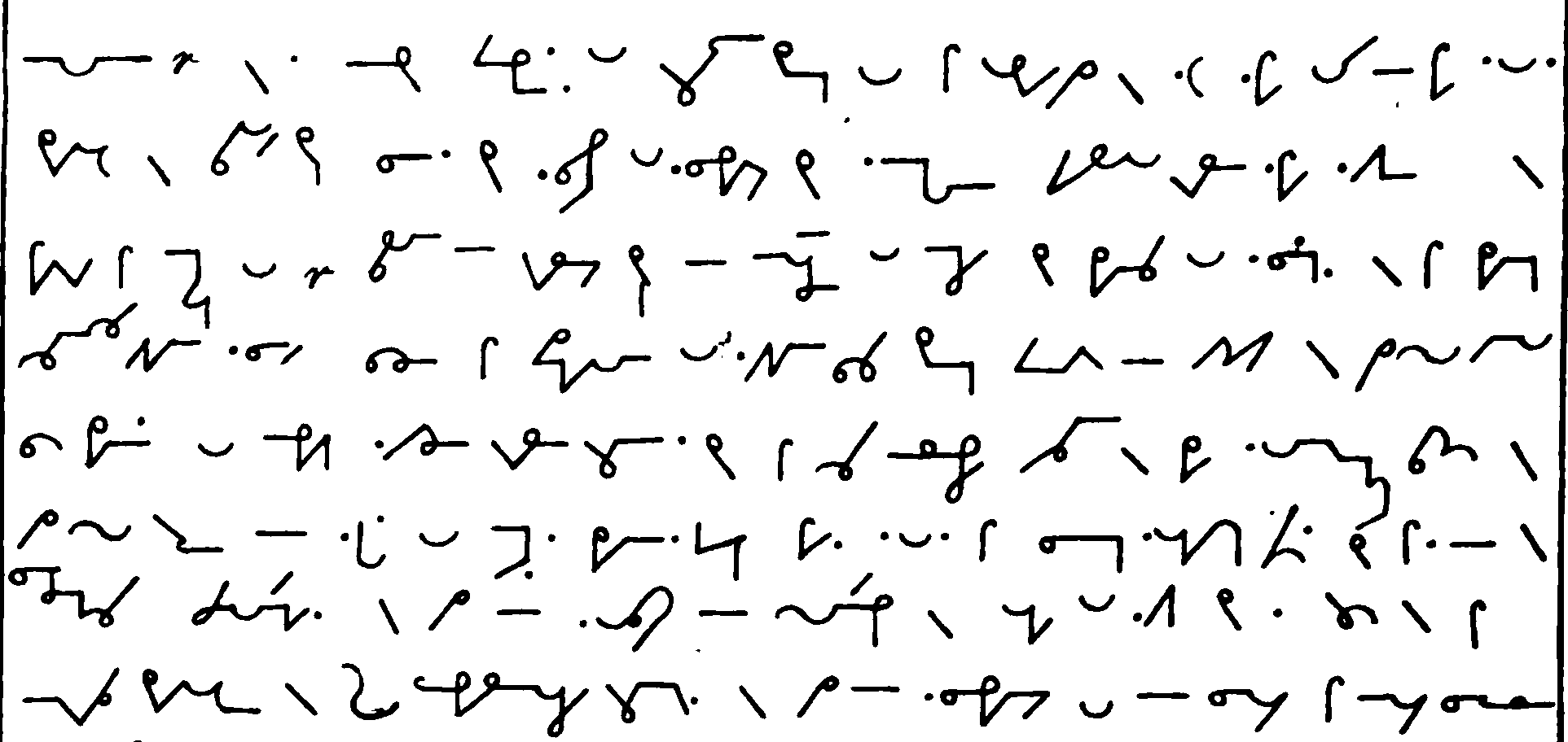 Example of Taylor's shorthand - smaller